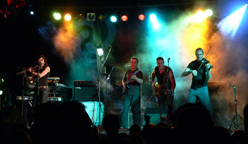 Triquel, a spanish celtic rock musical group.